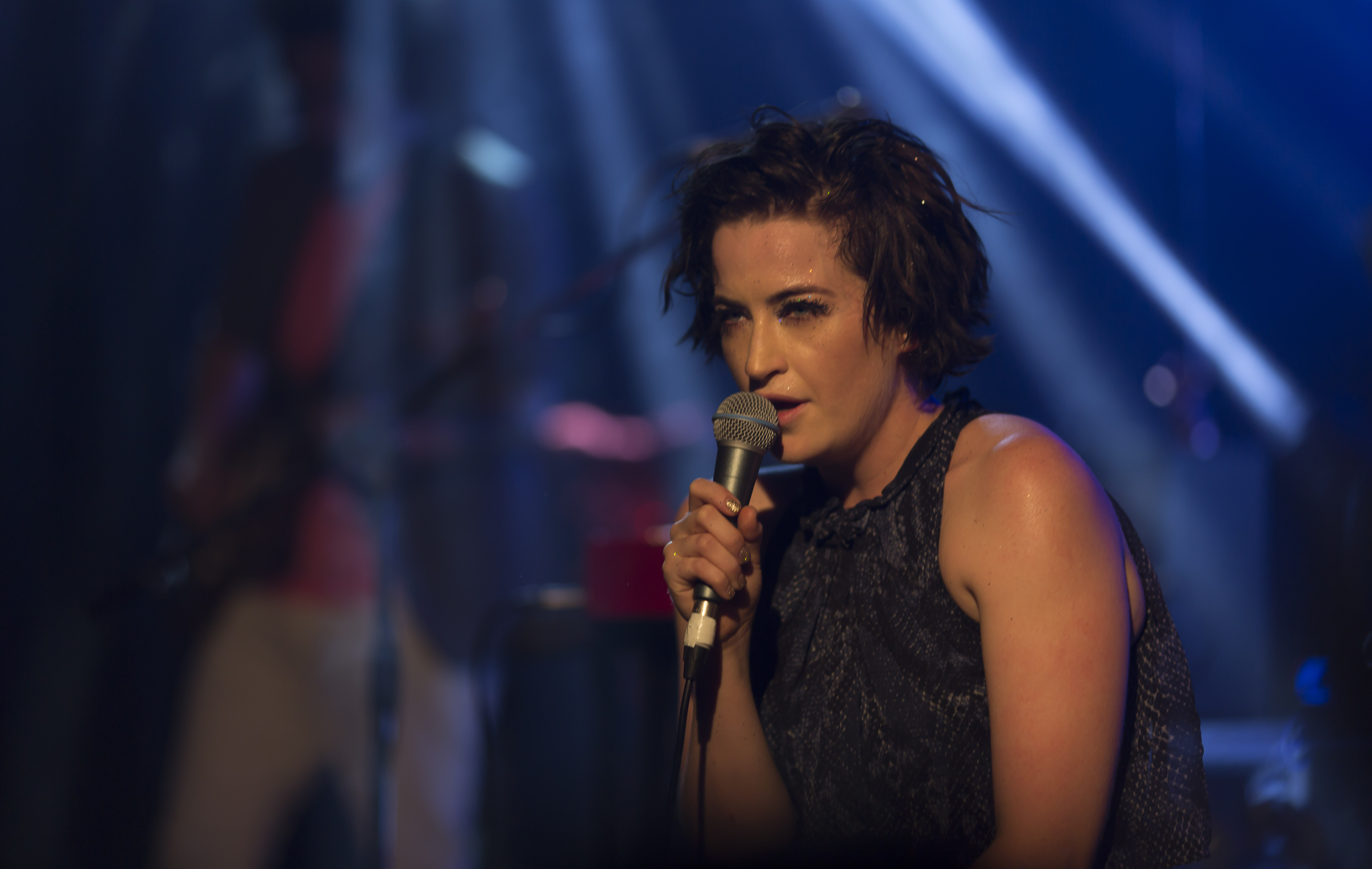 Megan Washington @ the Metro - 21st Feb 2015